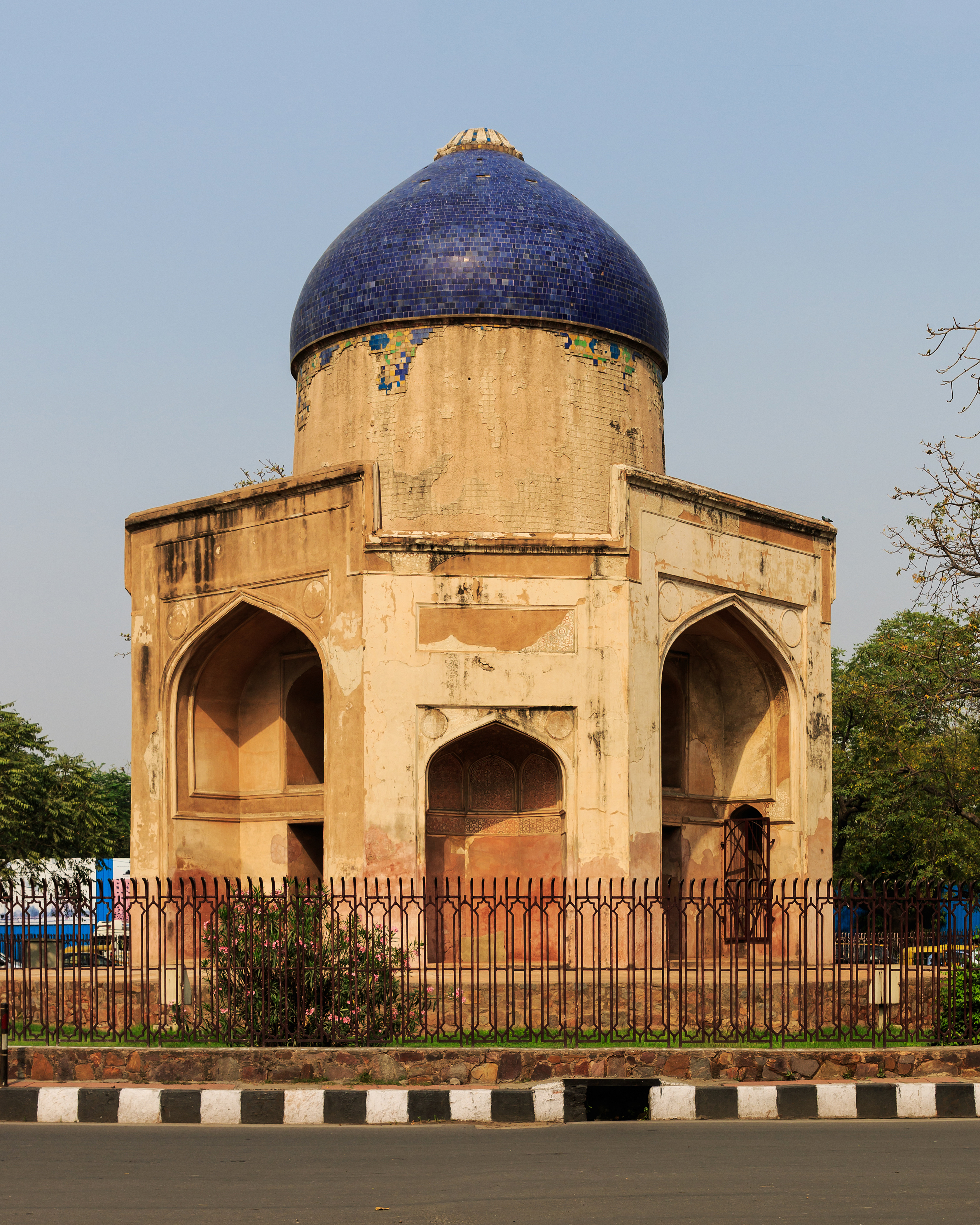 Sabz Burj tomb in Delhi, India